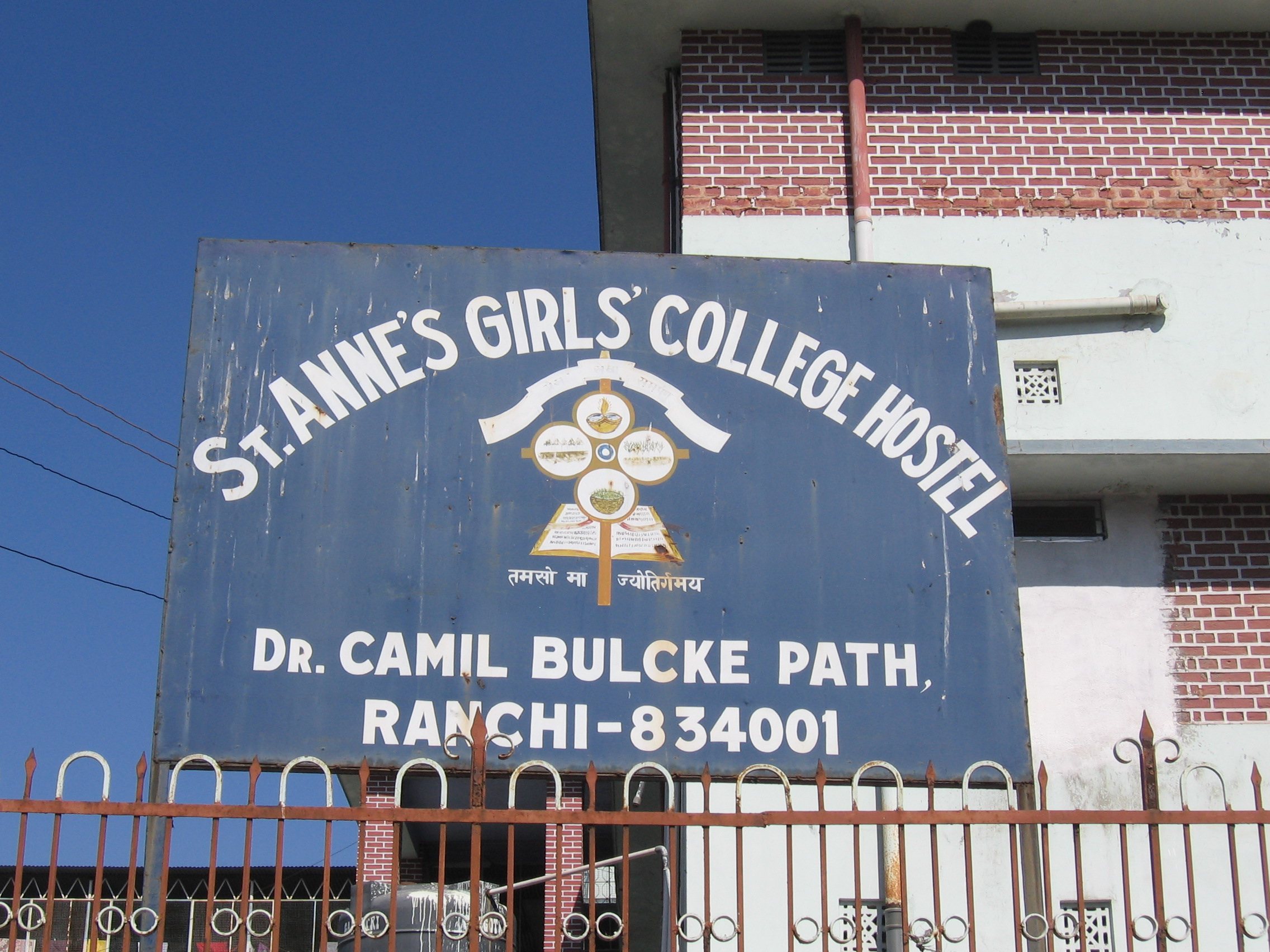 A street of Ranchi, Jharkhand (India), has been named after the renowned Jesuit Indologist, Camille Bulcke